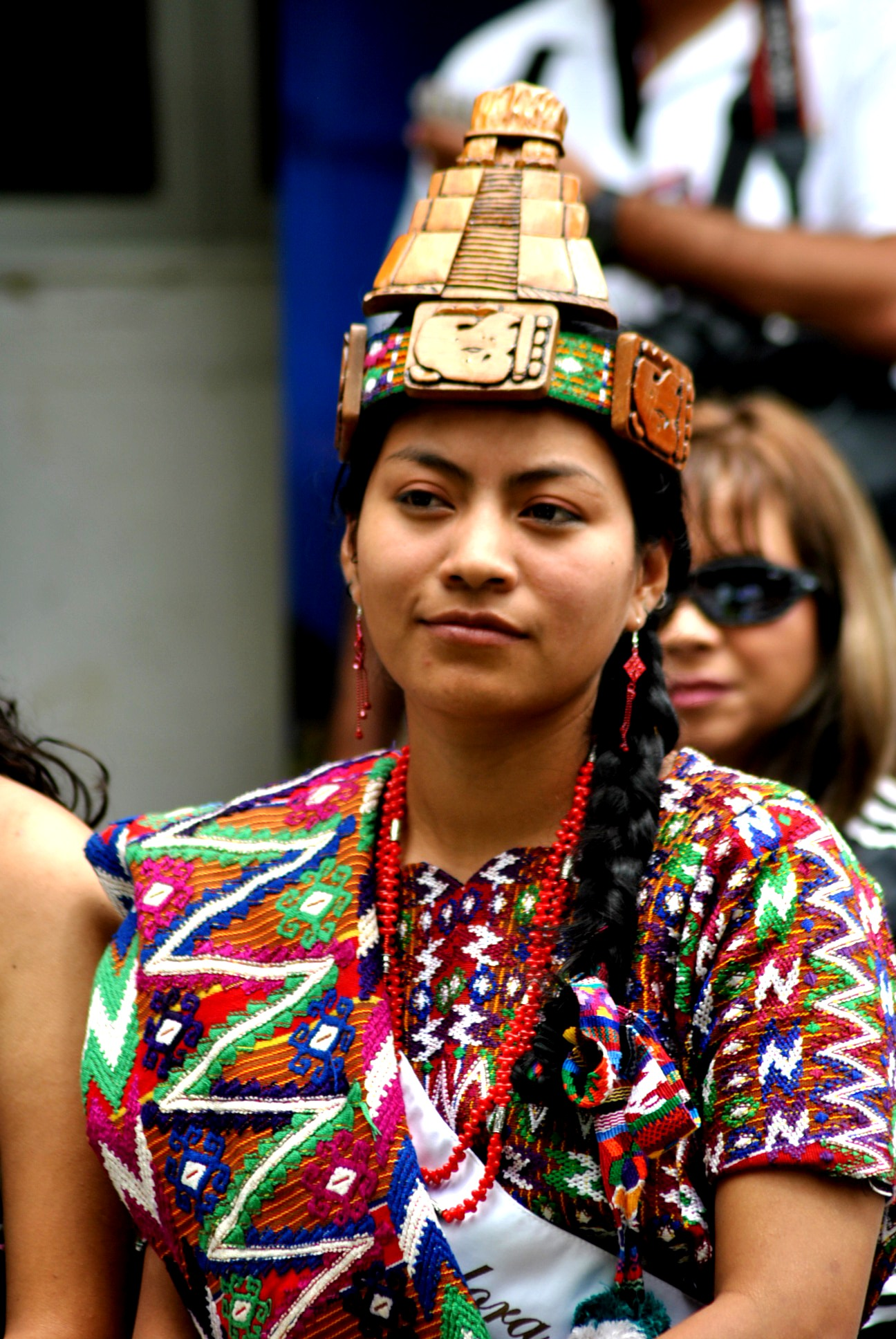 Maya woman of Chimaltenango